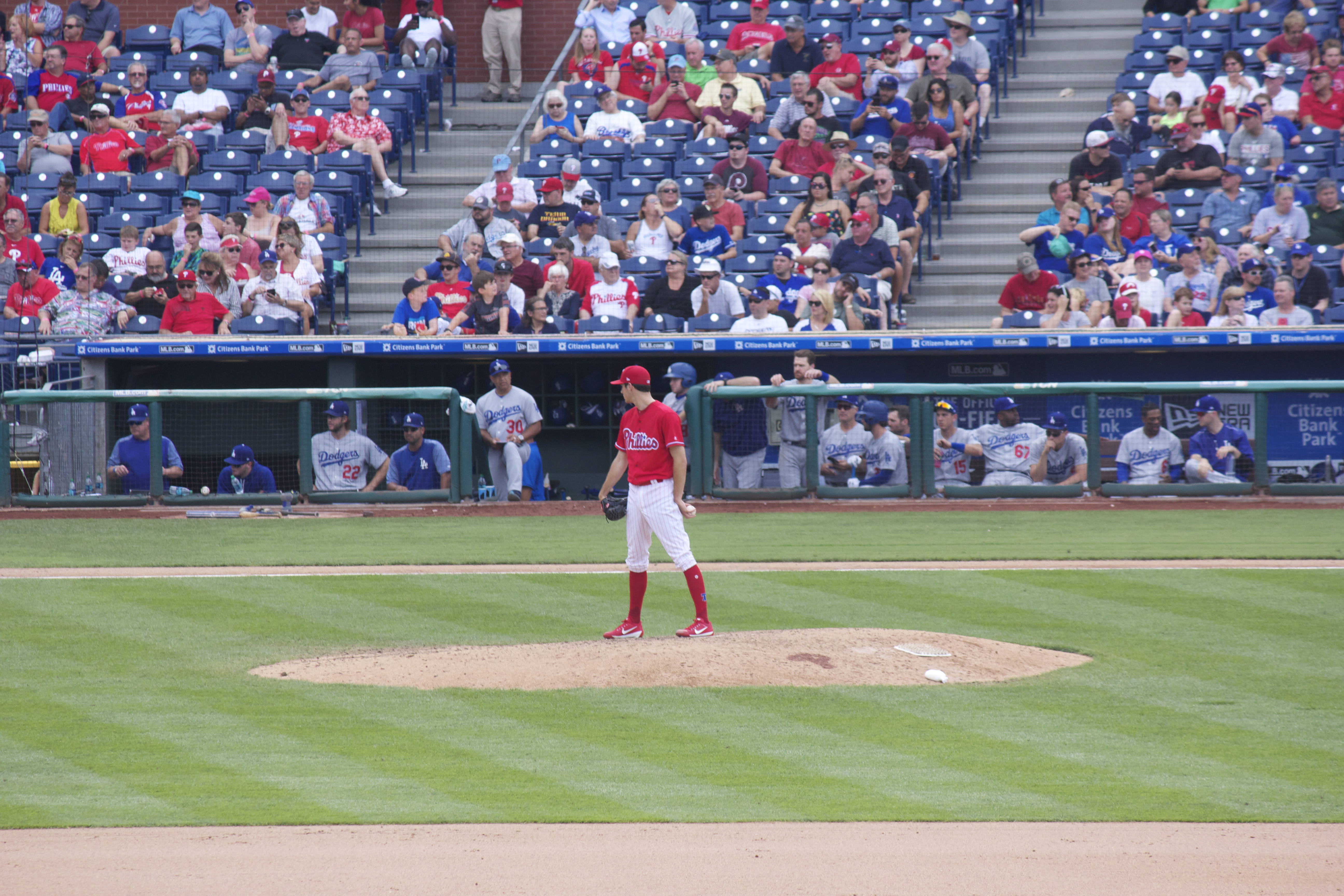 Philadelphia Phillies vs. Los Angeles Dodgers 9/21/17